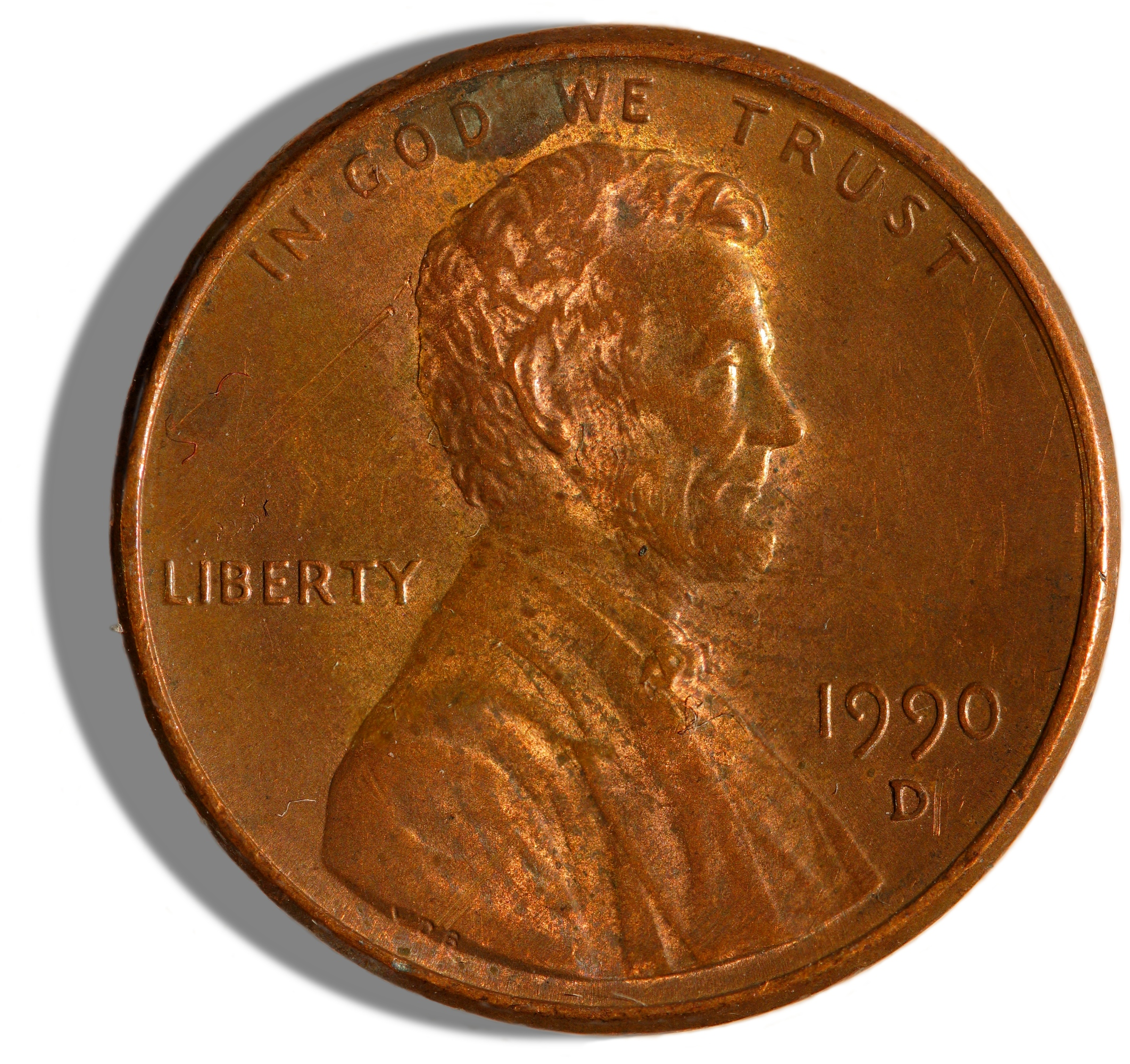 Obverse side of a 1990 issued US Penny. Picture was created as a linear macro panoramic image, composed from 16 photos.